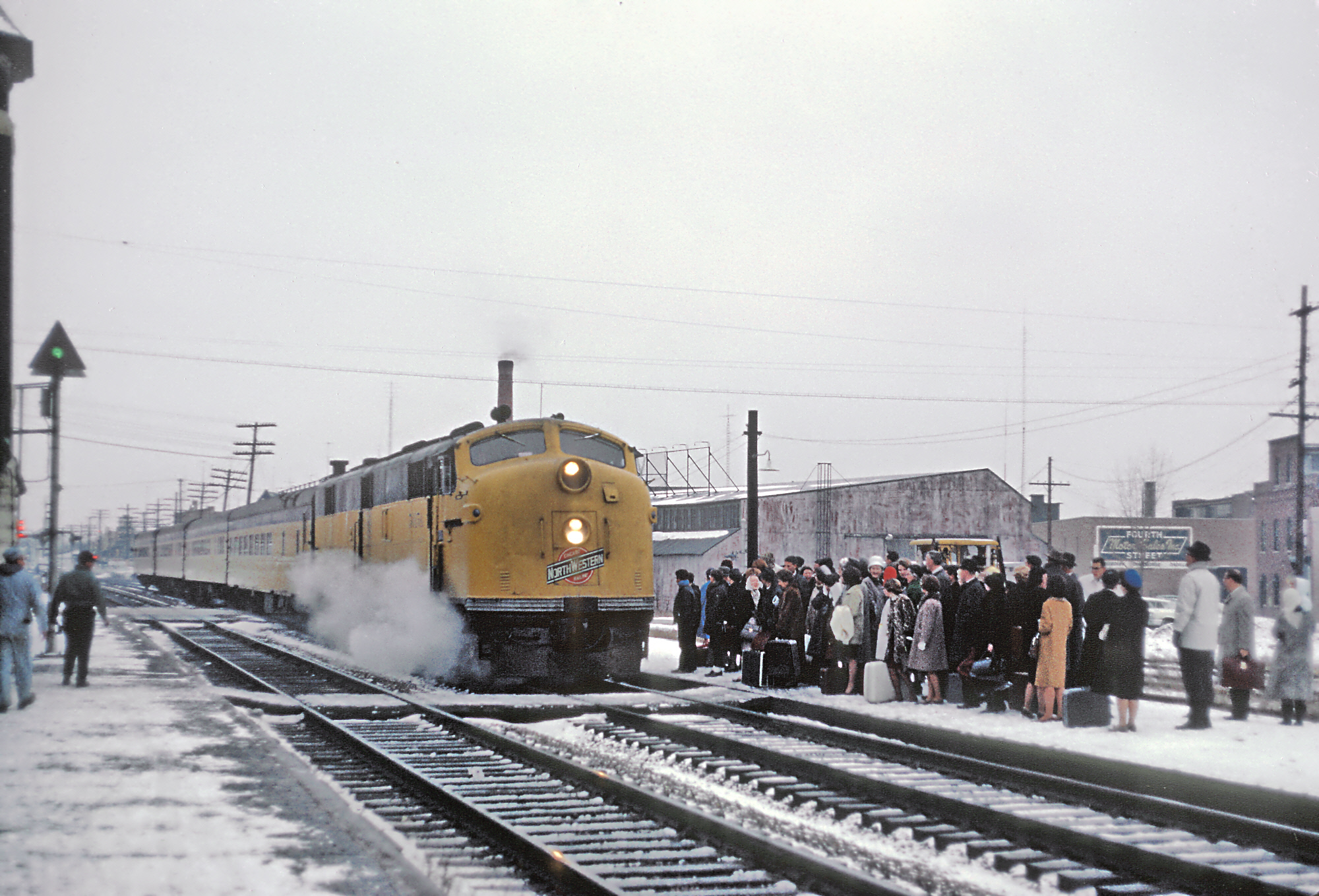 CNW 5015A (E7A) with the Kate Shelly 400 in DeKalb, IL on December 28, 1964.